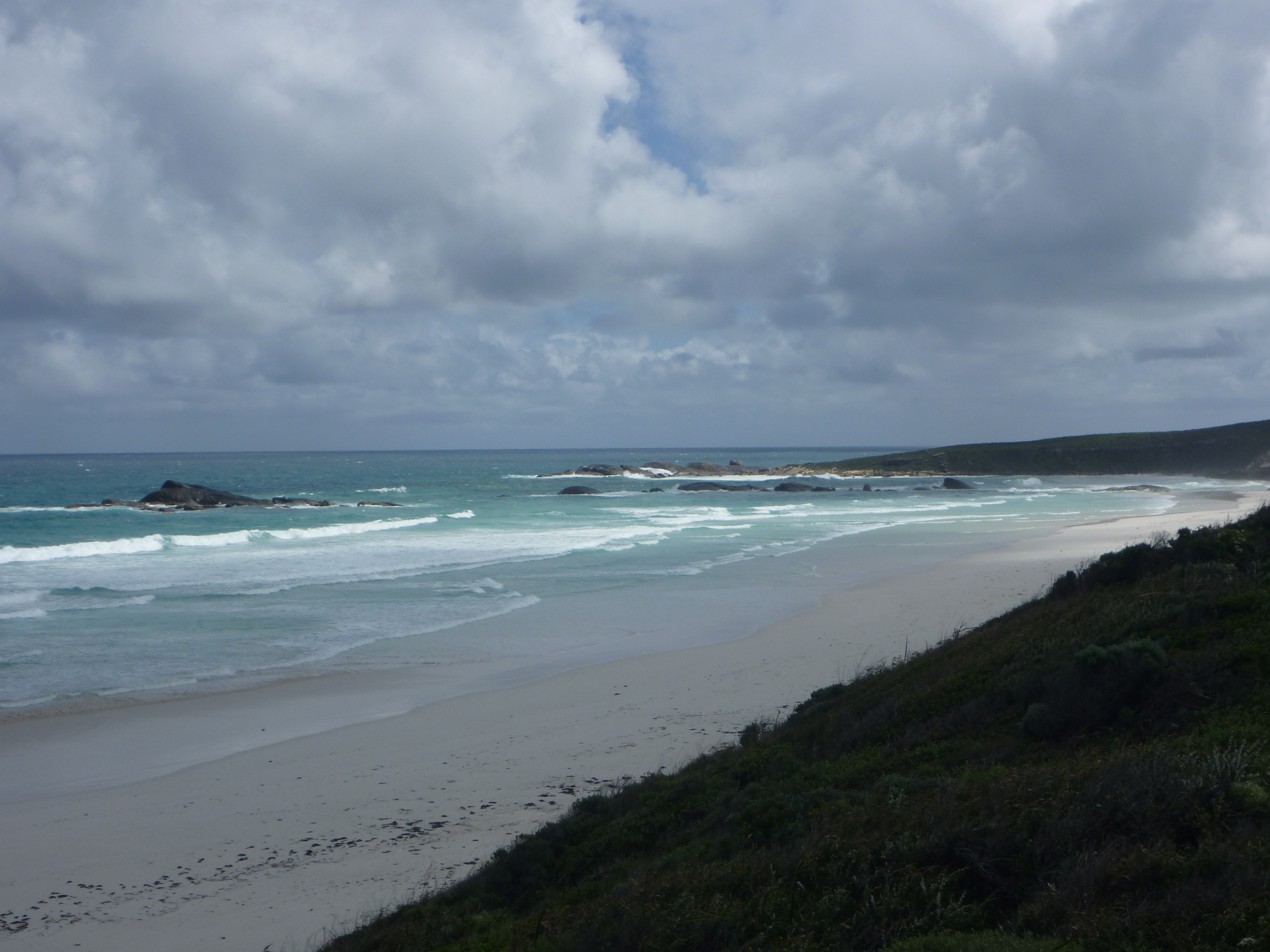 North end of boranup Brach